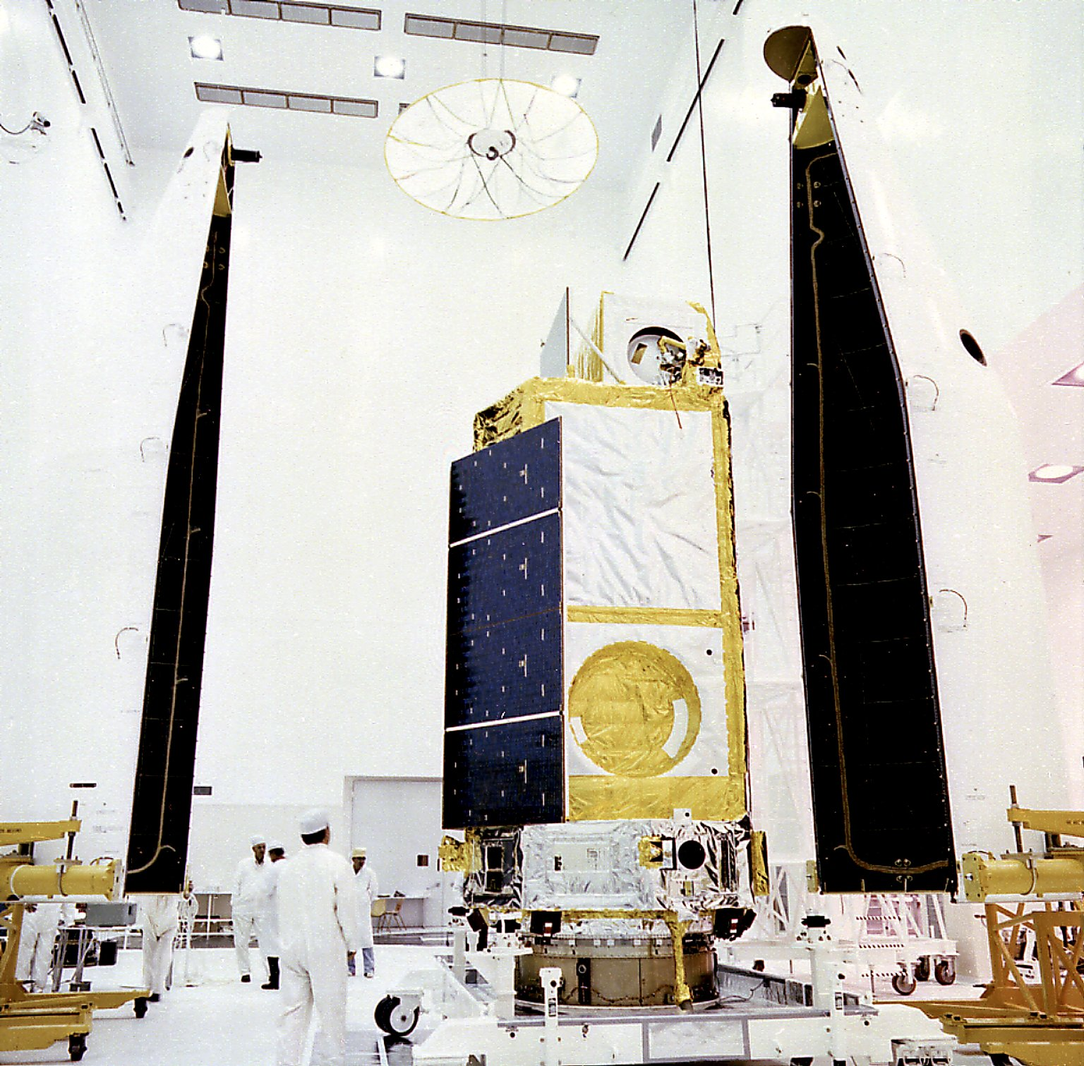 This photograph was taken during encapsulation of the High Energy Astronomy Observatory (HEAO)-3. Designed and developed by TRW, Inc. under the direction of the Marshall Space Flight Center, the objectives of the HEAO-3 were to survey and map the celestial sphere for gamma-ray flux and make detailed measurements of cosmic-ray particles. It carried three scientific experiments: a gamma-ray spectrometer, a cosmic-ray isotope experiment, and a heavy cosmic-ray nuclei experiment. The HEAO-3 was originally identified as HEAO-C but the designation was changed once the spacecraft achieved orbit. The Marshall Space Flight Center had the project management responsibilities for the HEAO missions.